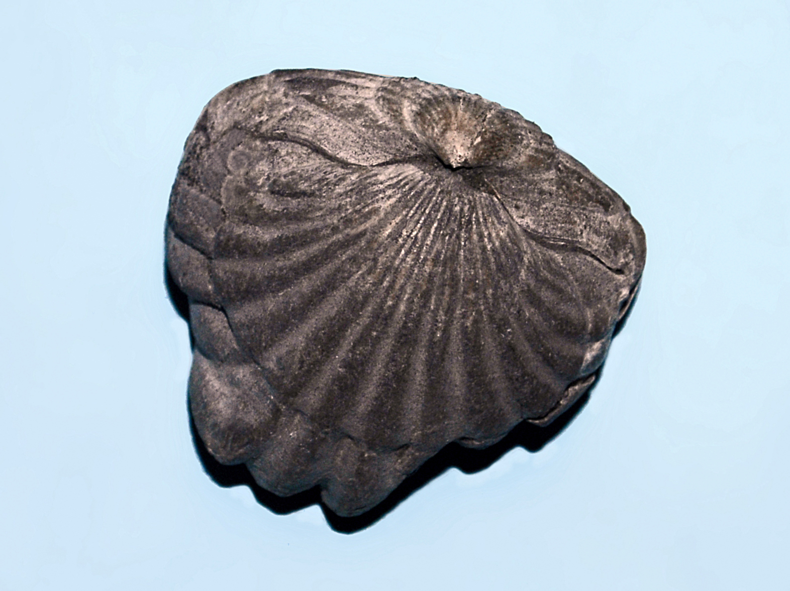 Rhynchonella species from Russia.